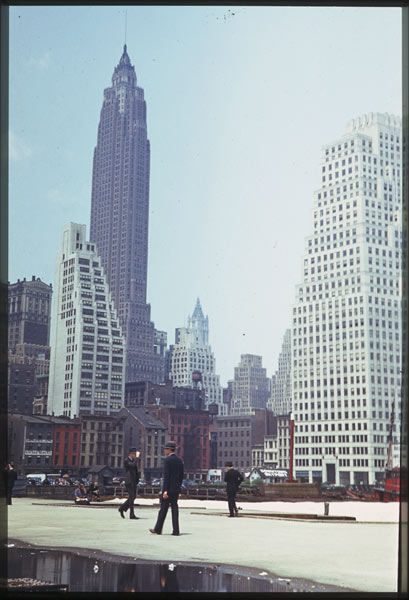 Another view of downtown skyscrapers from East river pier.